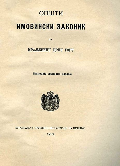 Title page of the General Code of property of Montenegro